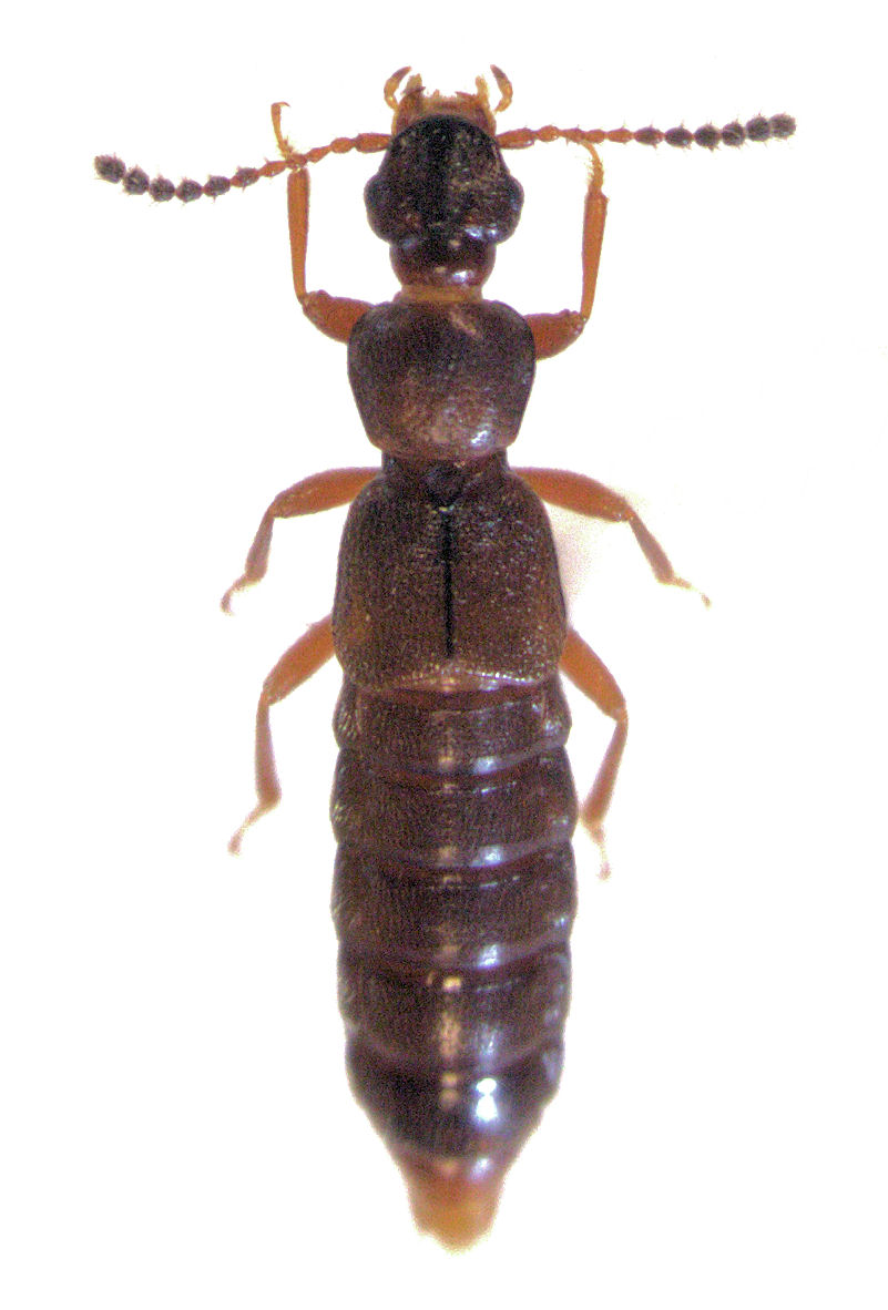 adult Allodrepa decipiens, length about 4 mm